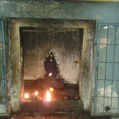 Saneeswara Bhagavan